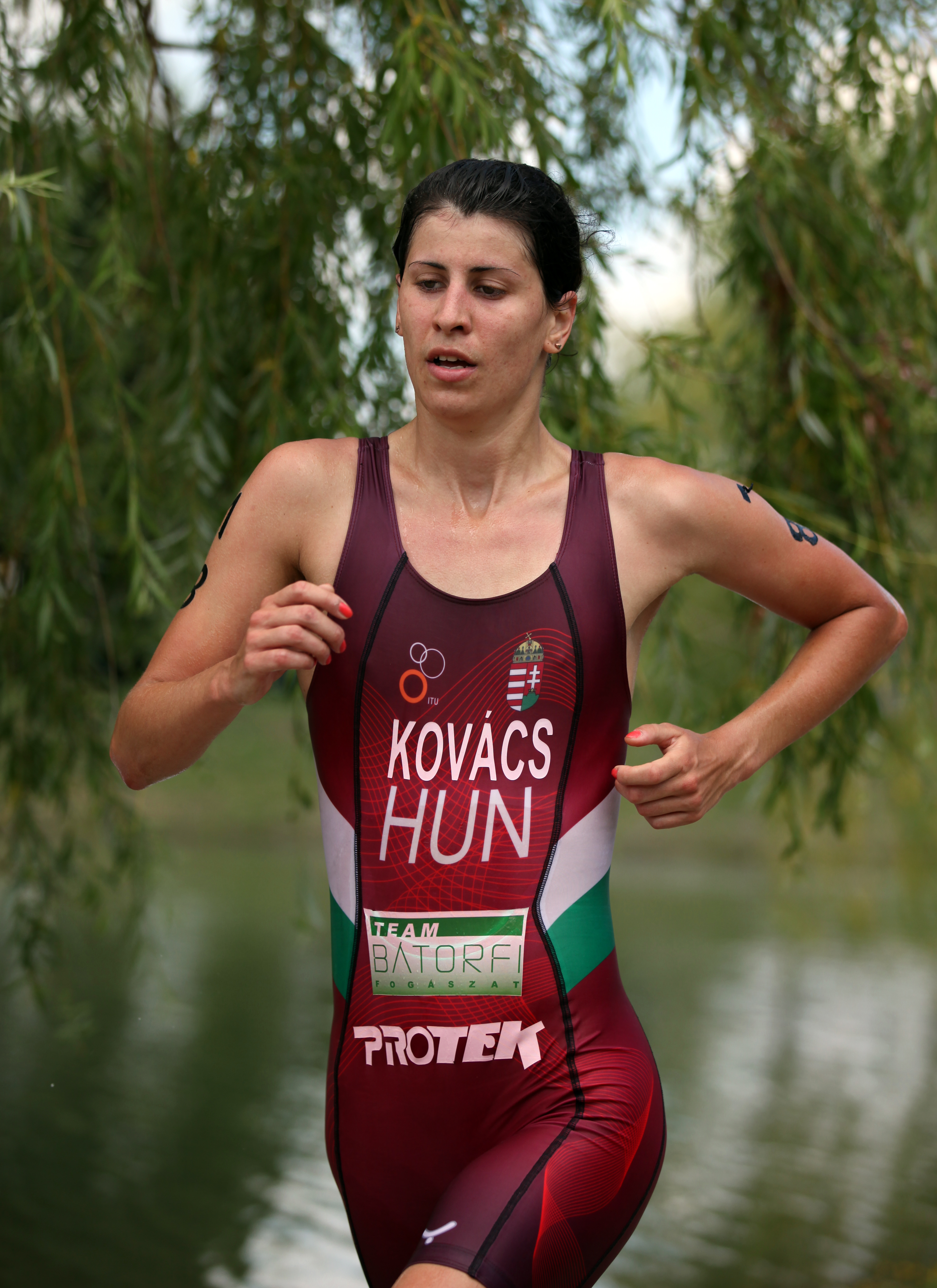 Zsófia Kovács at the World Cup elite triathlon in Tiszaújváros, 2011.